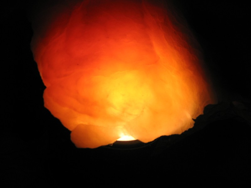 Transparent alabaster litghtened in Ghost Cave Alghero Sardinia